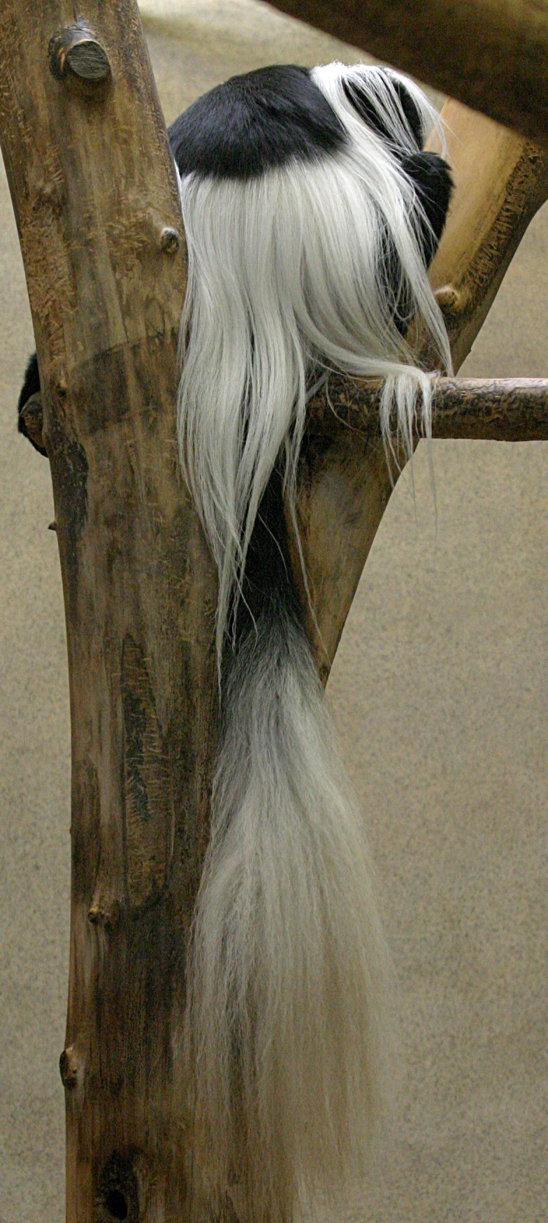 Back and tail of a Mantled Guereza at the Milwaukee County Zoological Gardens in Milwaukee, Wisconsin